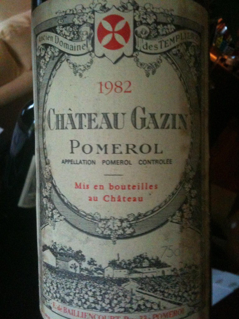 A bottle of the 1982 Pomerol wine from the right bank French Bordeaux region.